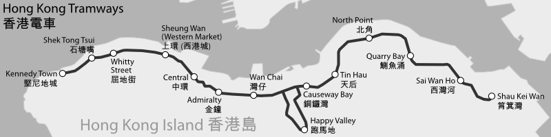 Map of the Hong Kong Tramways system, including route information. Please note that not all tram stops are shown.